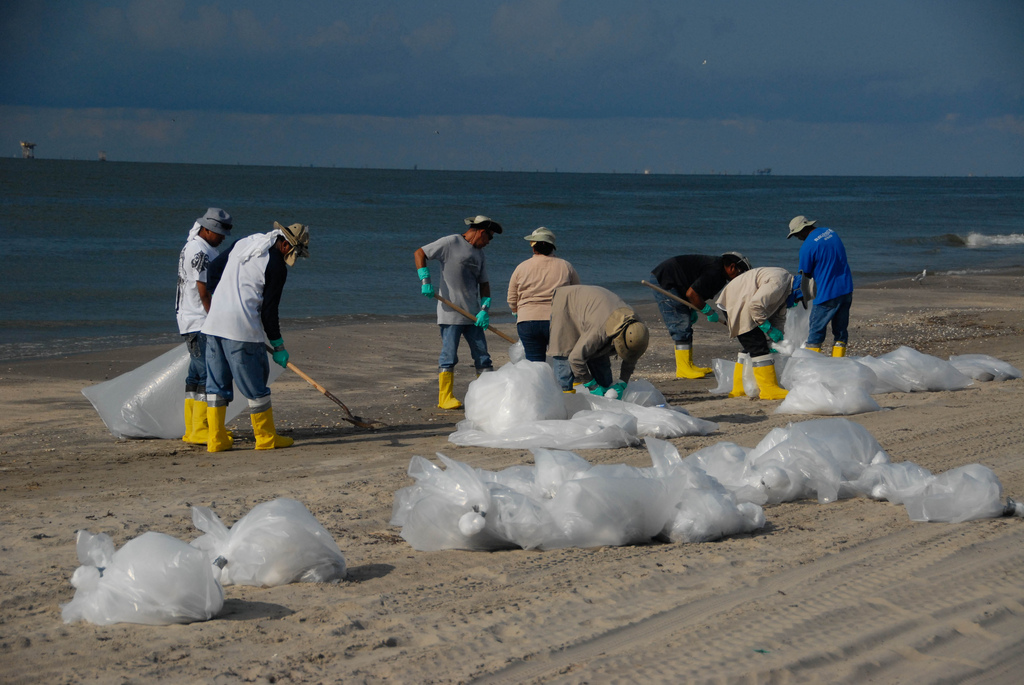 Workers cleaning up a beach during Deepwater Horizon event.